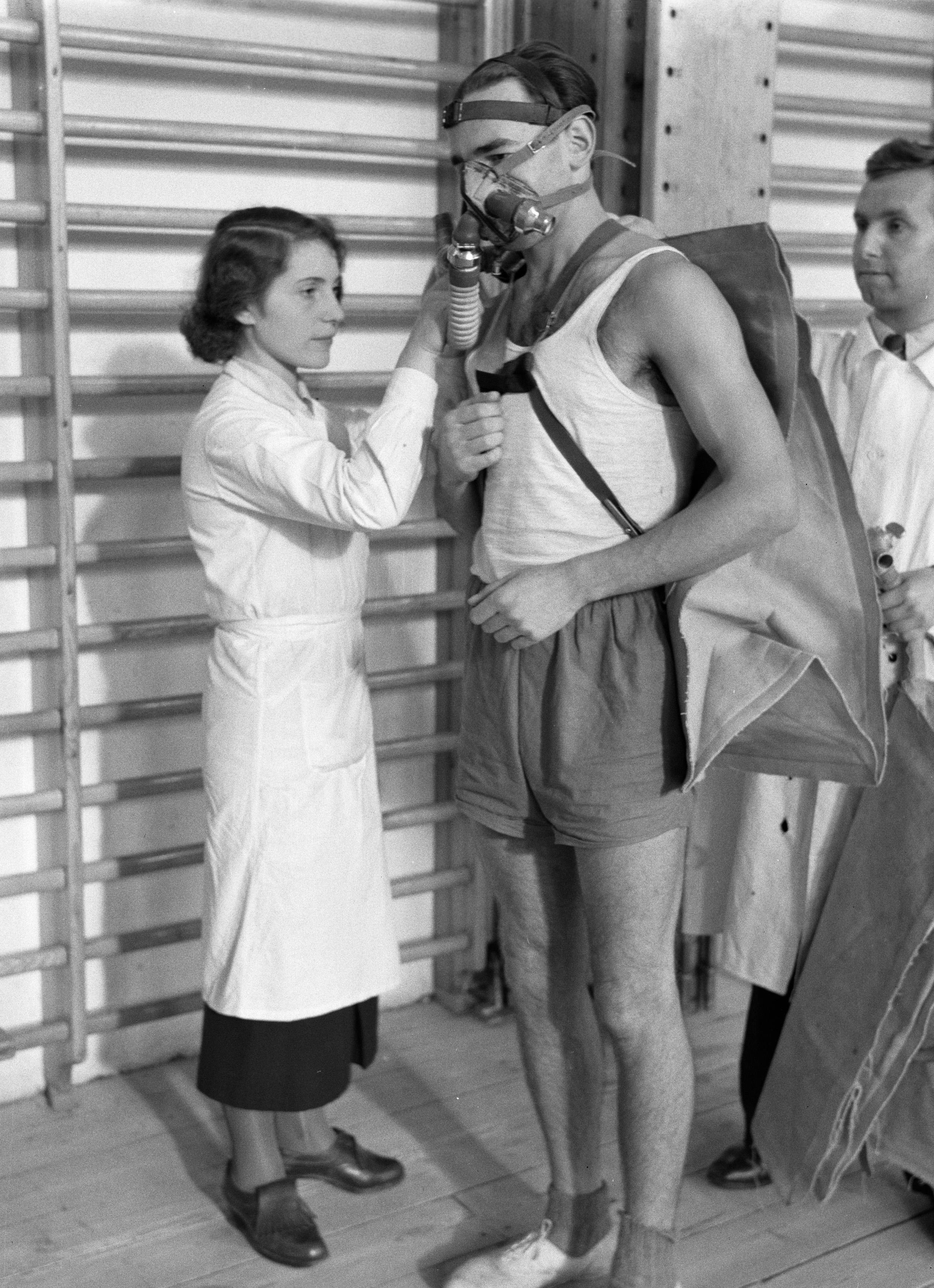 Warsaw. Central Institute for Physical Exercise: student in sports costume is provided with a mask to measure respiration